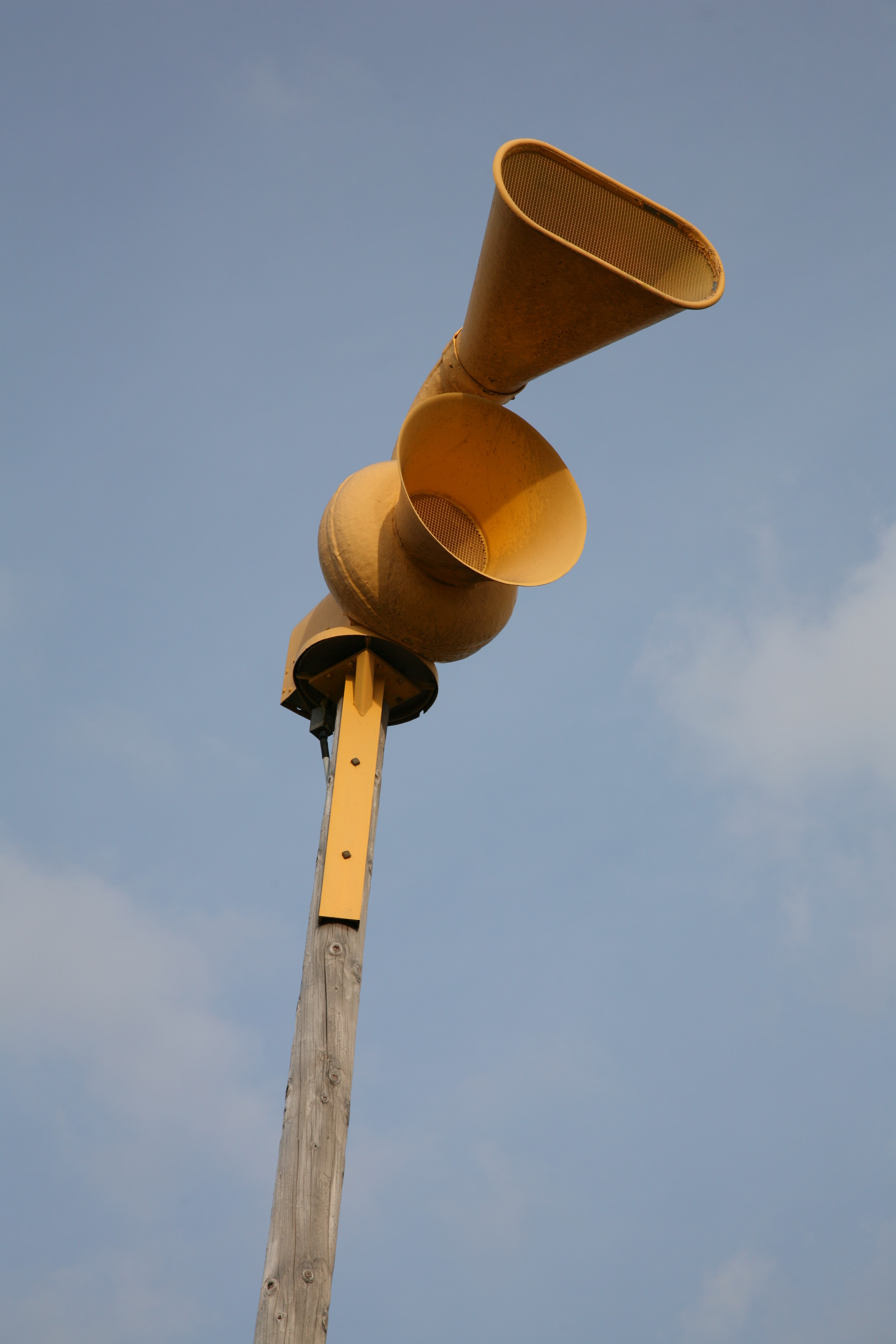 Tornado siren, Pesotum, Illinois, USA